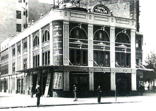 Teatre Talía, at Barcelona Paral·le avenue, in a postcard by 1930s.